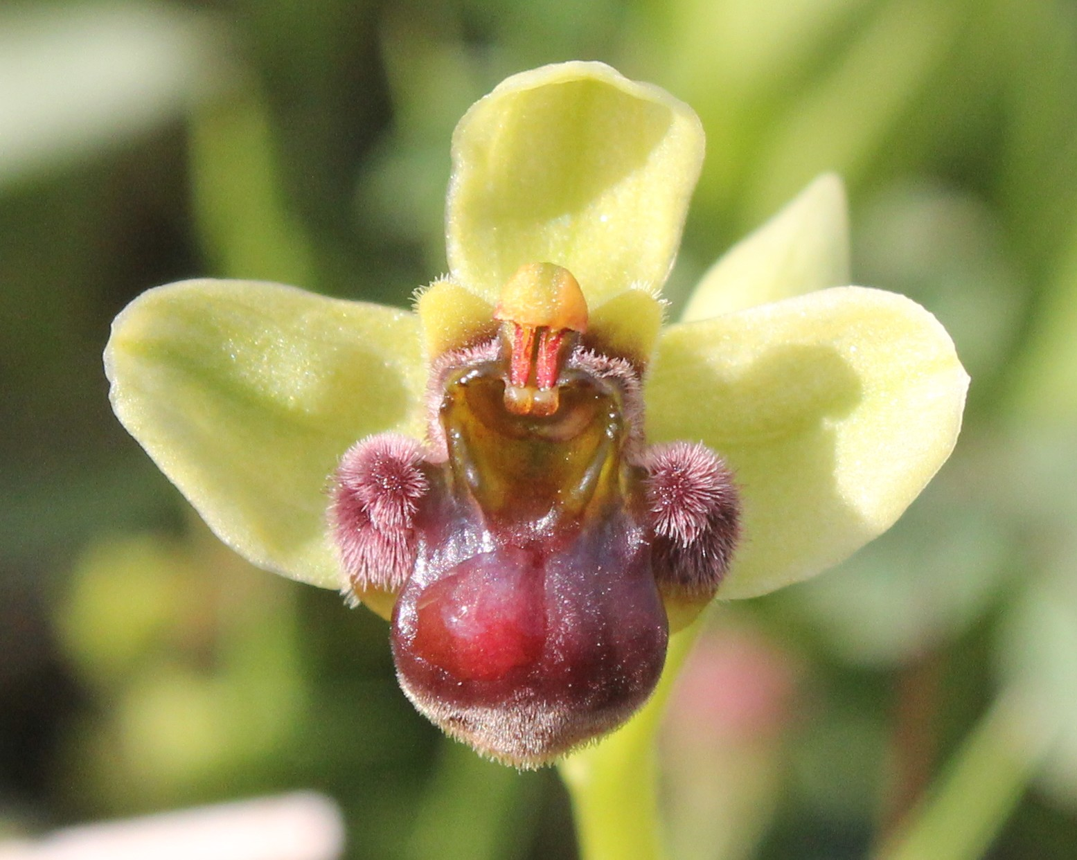 Ophrys bombyliflora labellum